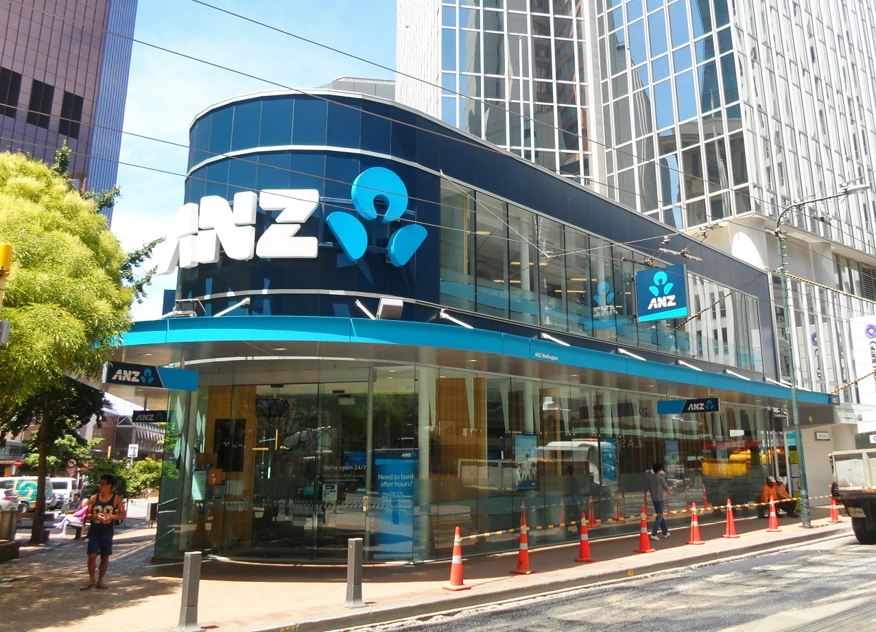 Entrance to ANZ Bank Tower on Lambton Quay, Wellington, New Zealand in 2015.